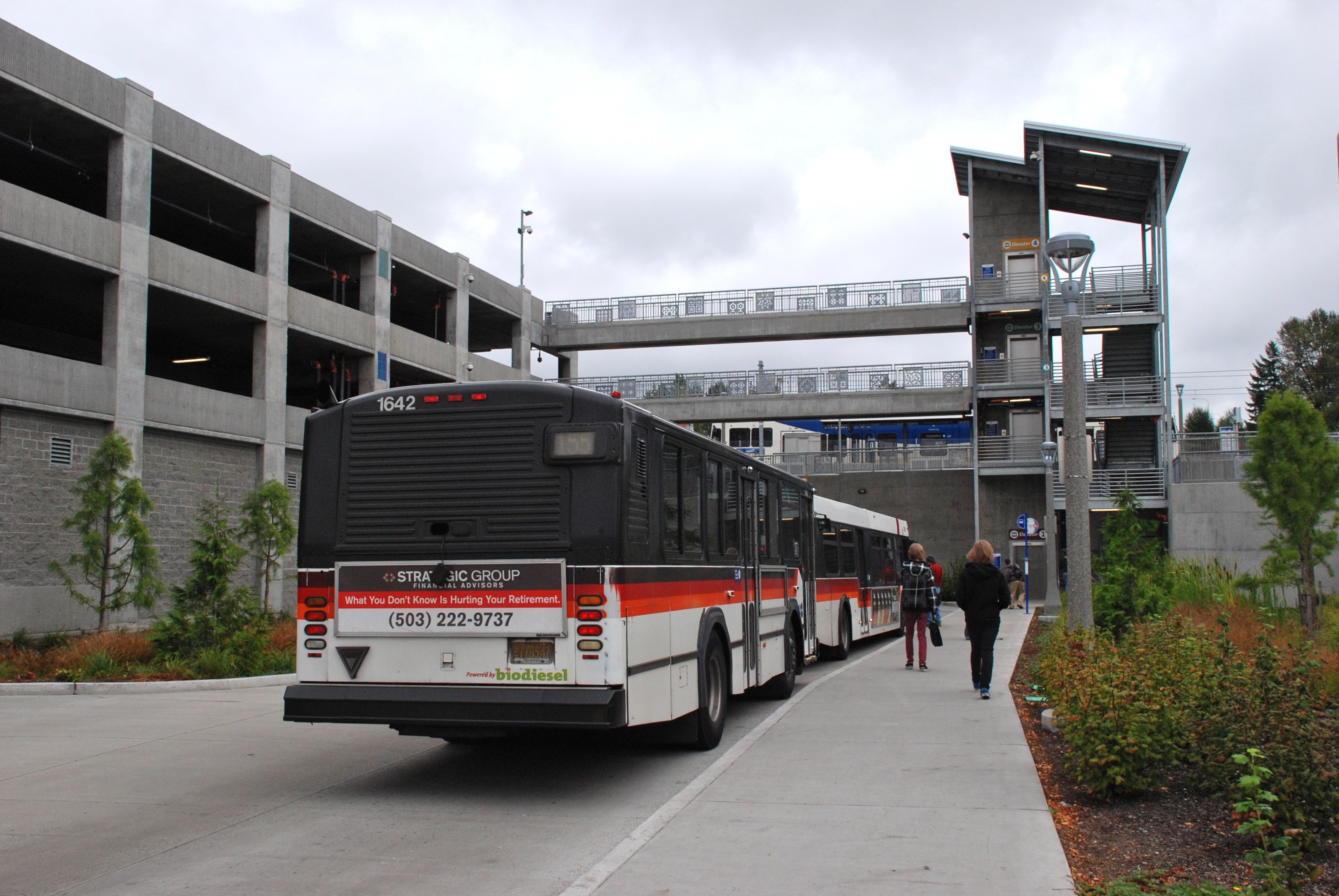 Two buses stopped to unload at the arrival/unloading stop at TriMet's 2009-opened Clackamas Town Center Transit Center, with the MAX Green Line station in the background. (An earlier Clackamas Town Center TC opened in 1981 and was located on the north side of the mall.) The building at left is a park-and-ride garage for transit riders.The two buses in this photo are No. 1642, a 30-foot Gillig Phantom built in 1991, and a TriMet 2500-series bus, a 40-foot New Flyer D40LF built in 2000 or 2001. The sticker on the back of bus 1642 is a reference to the fact that, since fall 2006, all of TriMet's buses are powered by a B5 biodiesel blend.